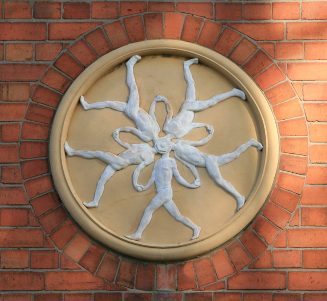 Humber Works Motif On Humber Road Beeston. Once home to the Humber car and bicycle works. Now a martial arts centre.